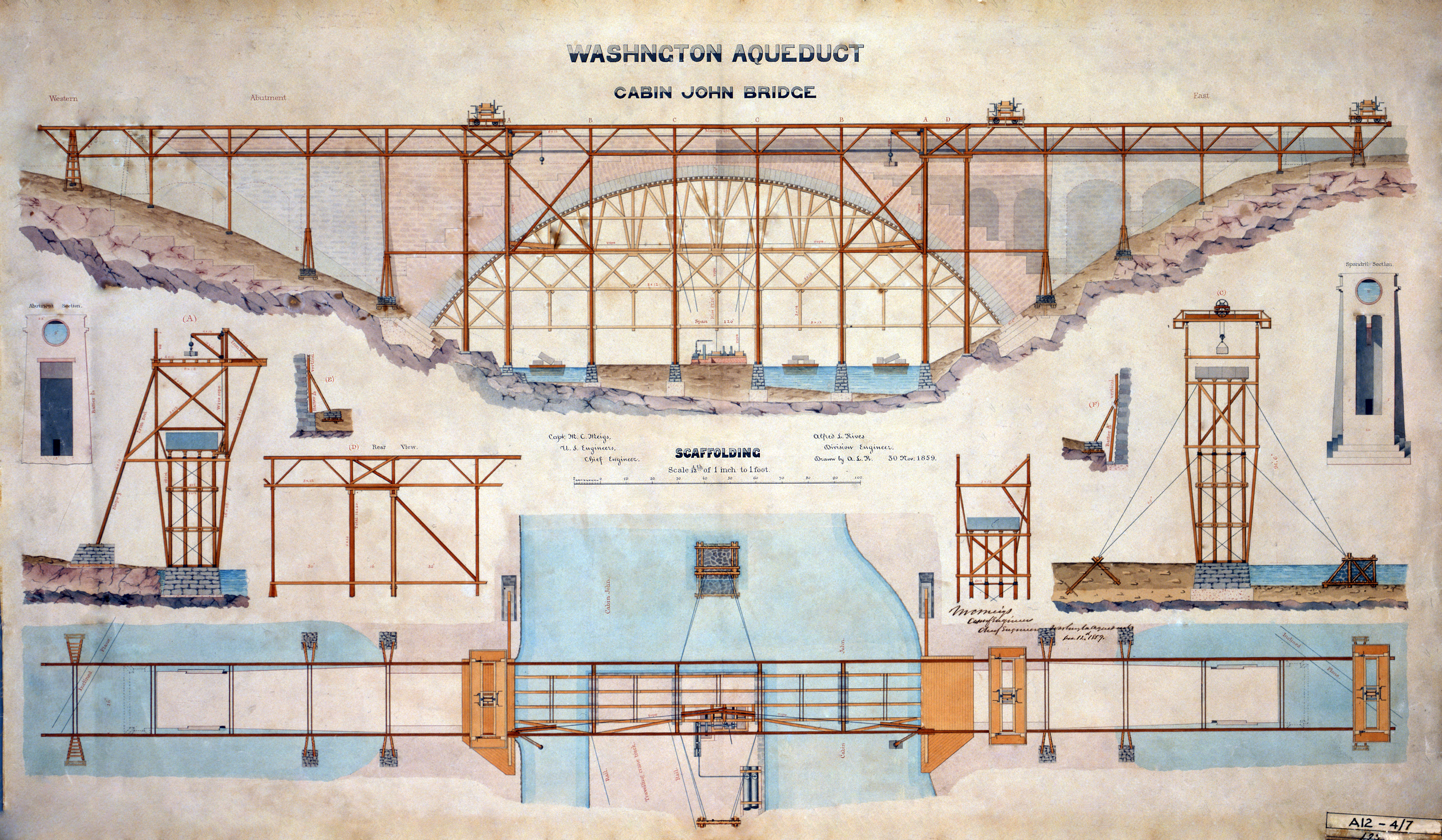 Watercolor Rendering of Cabin John Bridge Scaffolding, Washington Aqueduct. Captain M.C. Meigs, Chief Engineer; Alfred L. Rives, Assistant Engineer, Delineator. (Also called Union Arch Bridge. Location: Cabin John, Maryland.) Archived by U.S. National Park Service, Historic American Engineering Record.